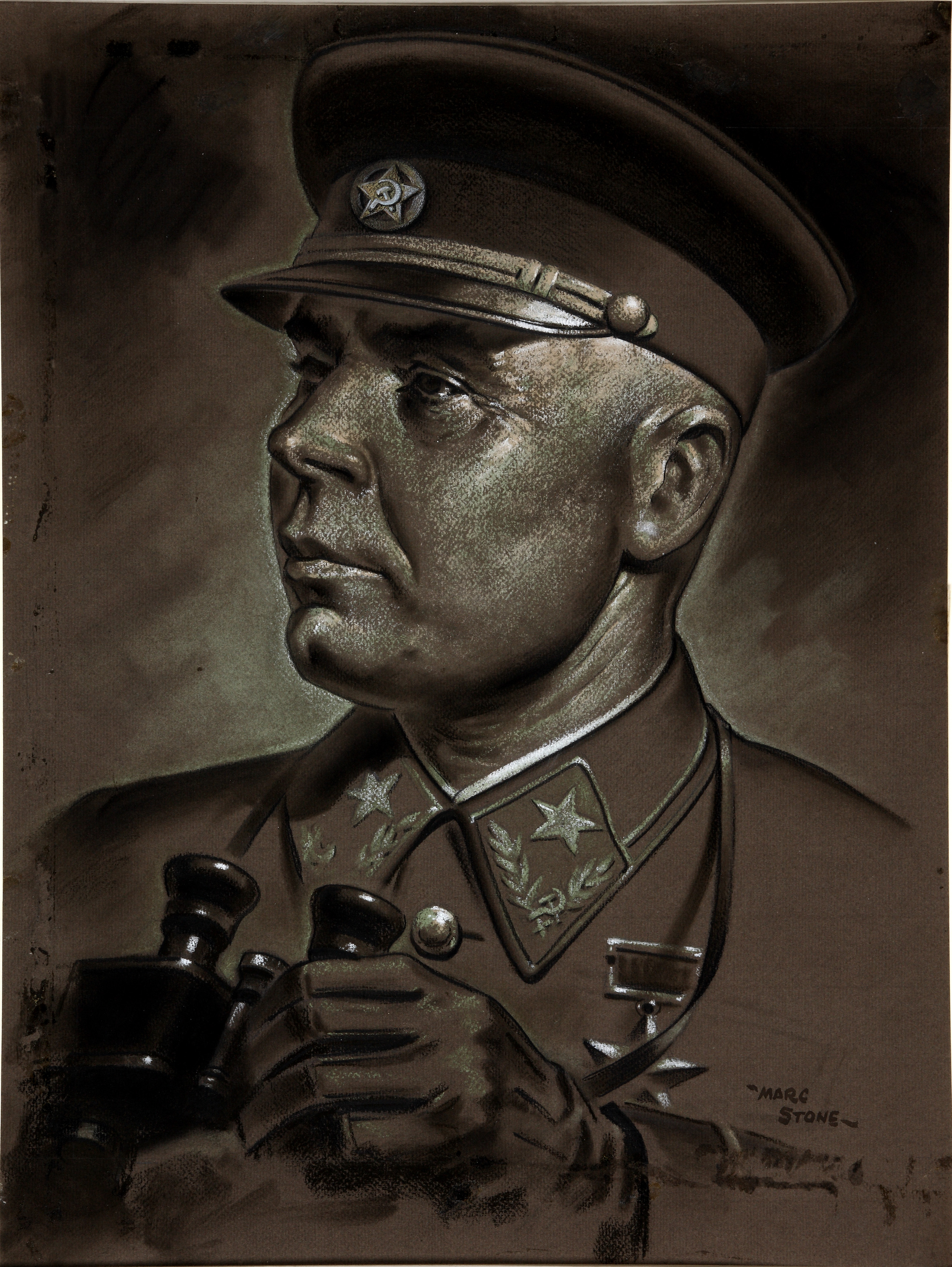 Marshal Semyon Timoshenko Depicted person: Semyon Timoshenko